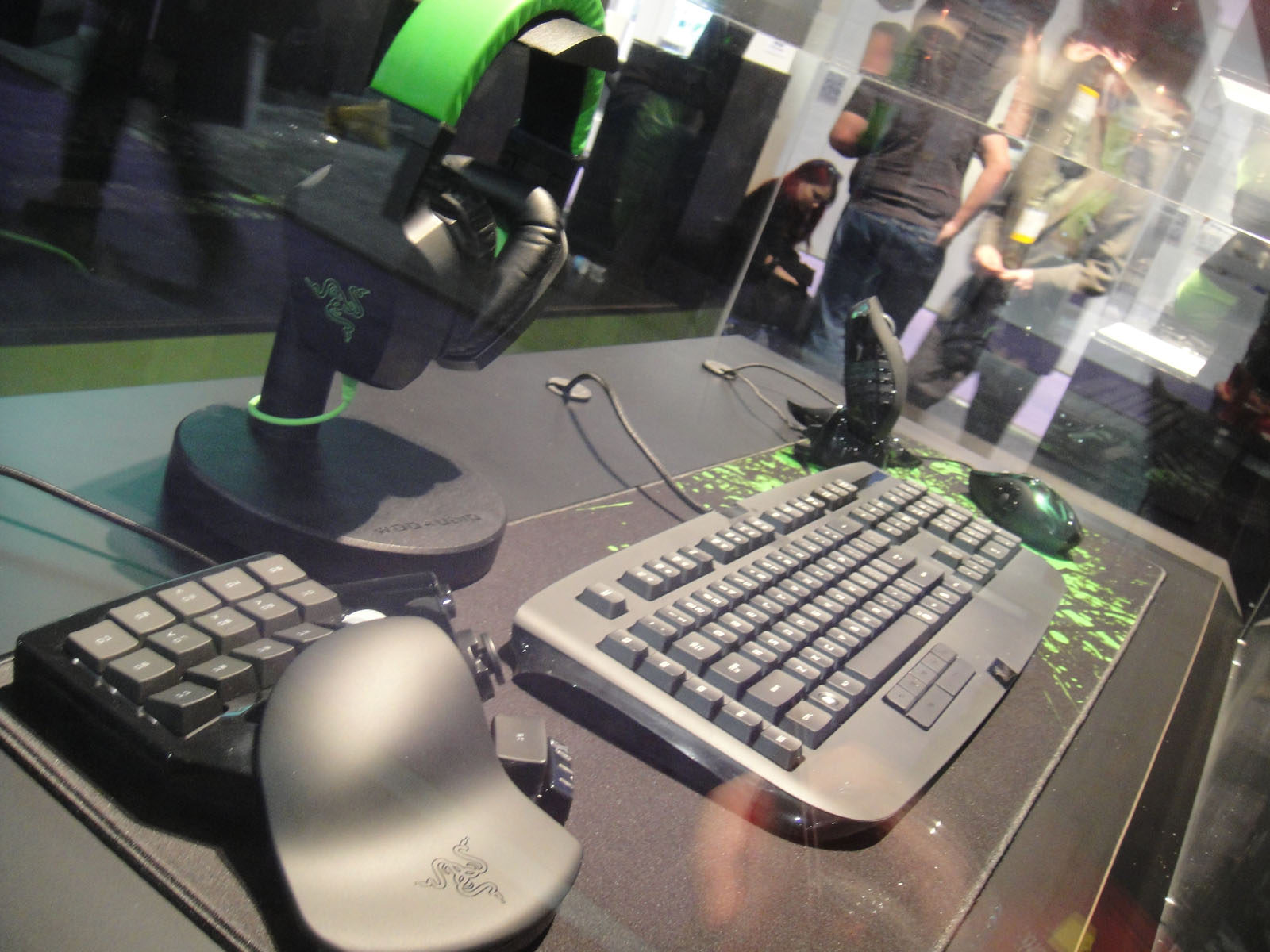 photo 2012 Pop Culture Geek taken by Doug Kline If you're interested in higher resolution versions of my images, contact me via my profile page.